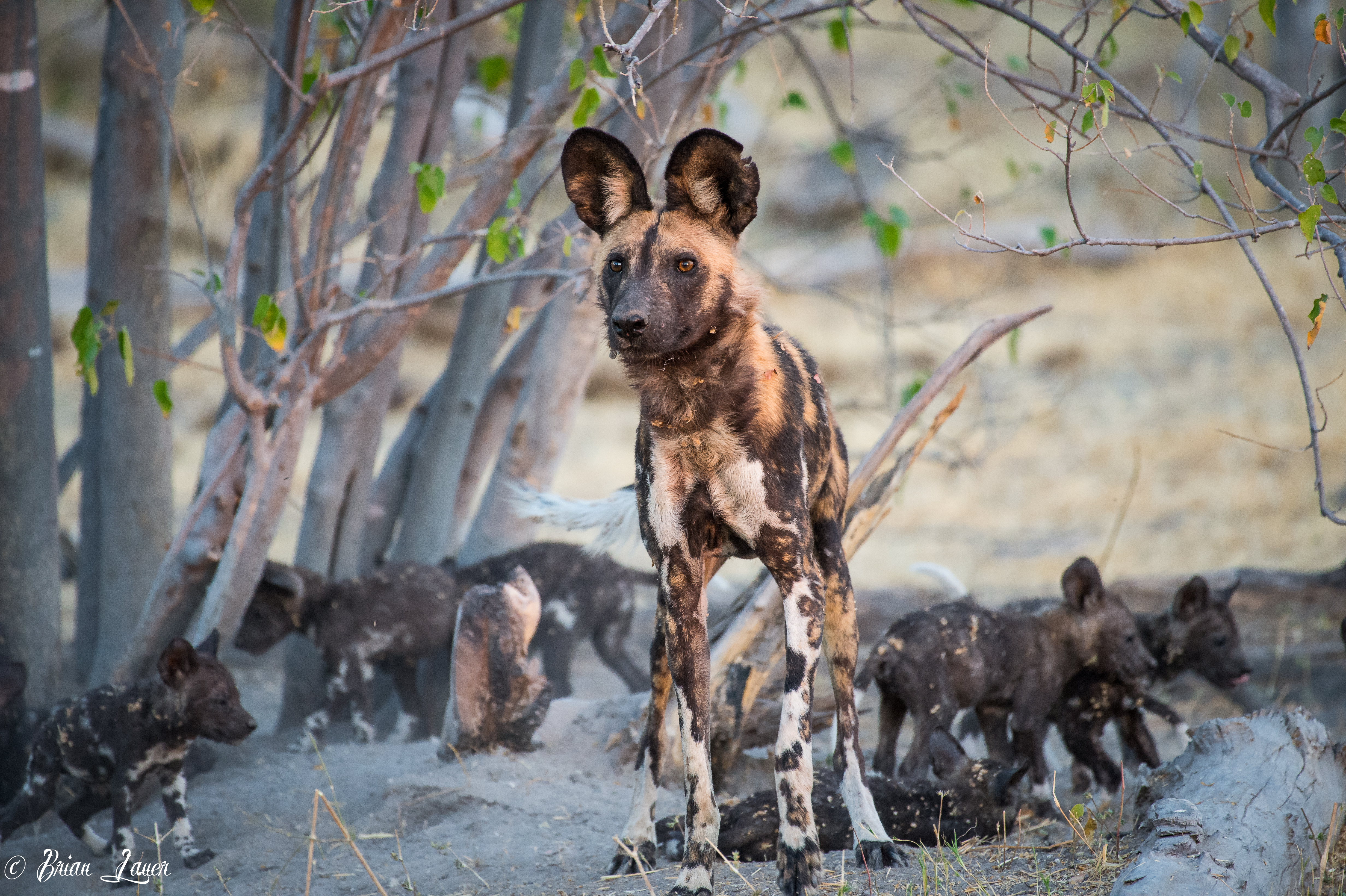 Chitabe-37